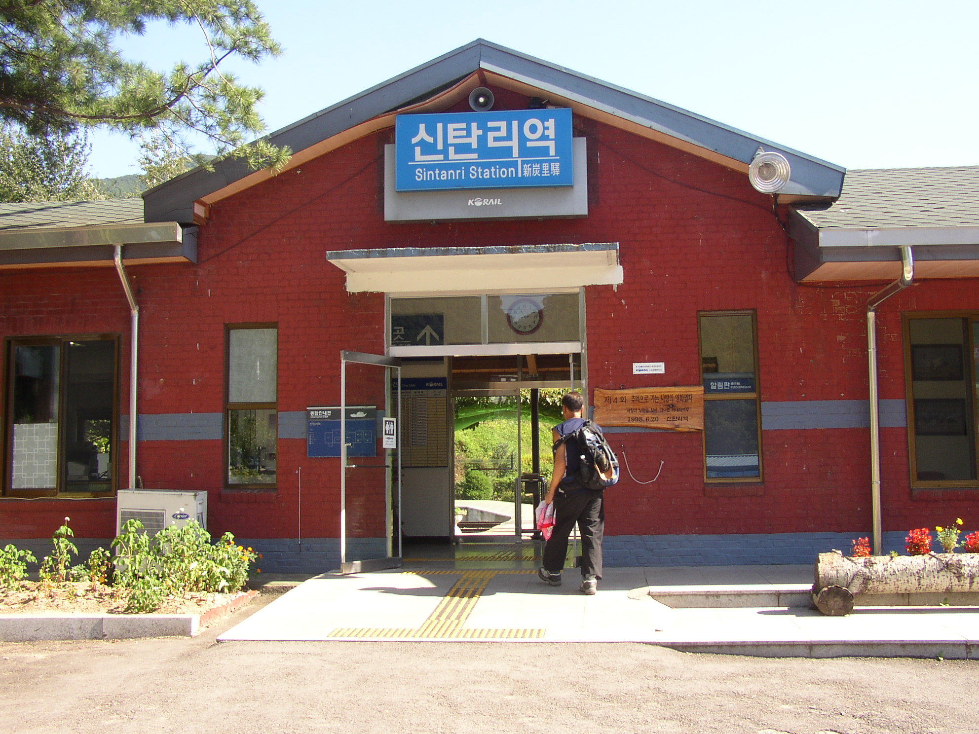 Sintan-ri Station (Gyeongwon Line, The Northernmost Station in South Korea)